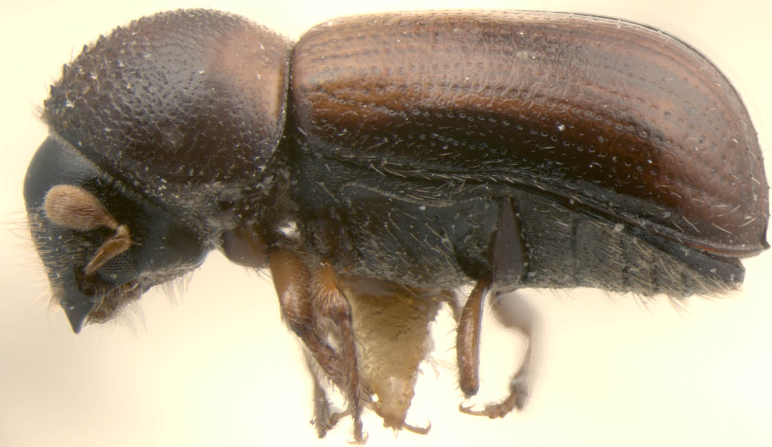 Trypodendron lineatum, a holarctic ambrosia beetle from the tribe Xyloterini.